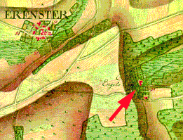 Luxembourg Niederanven: extract taken from the map drawn by Joseph de Ferraris and published in 1777. The red arrow shows the location of the farm Engelshaff.